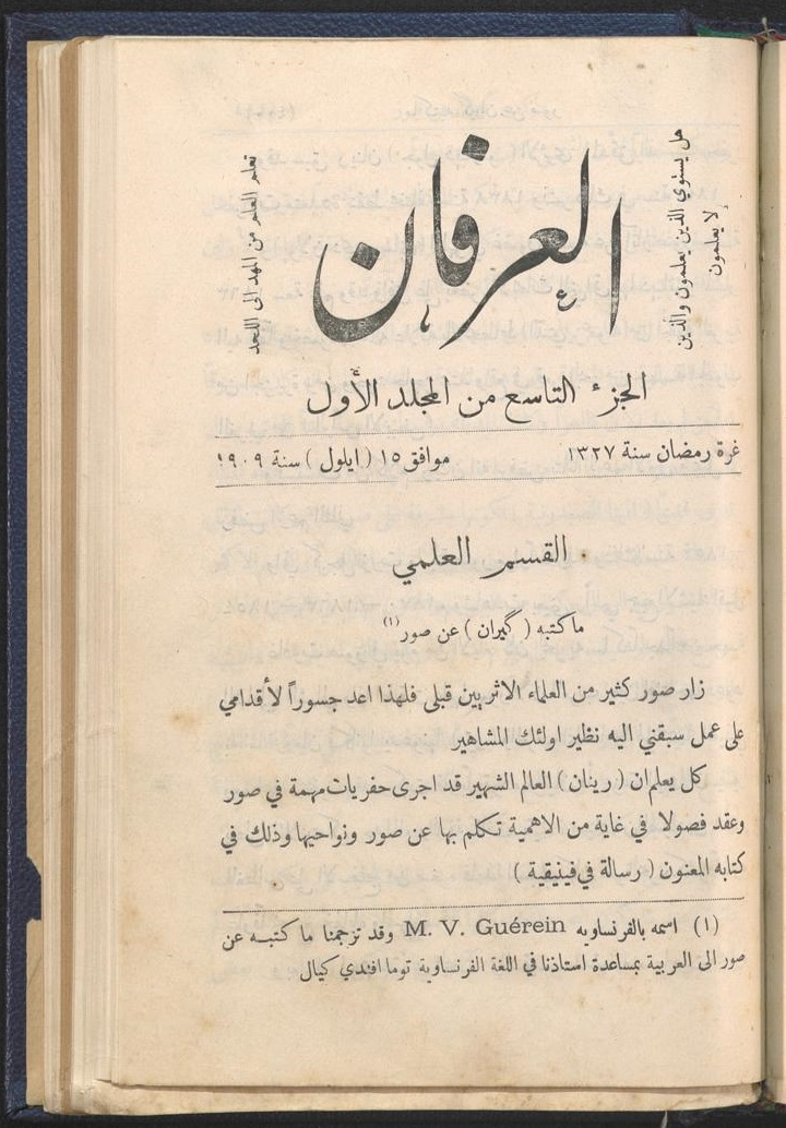 cover of the 9th edition